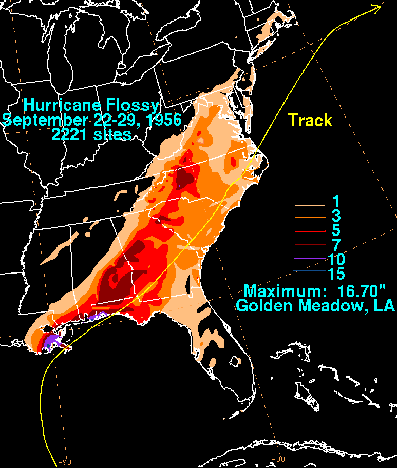 Storm total rainfall map of Hurricane Flossy during September 1956.